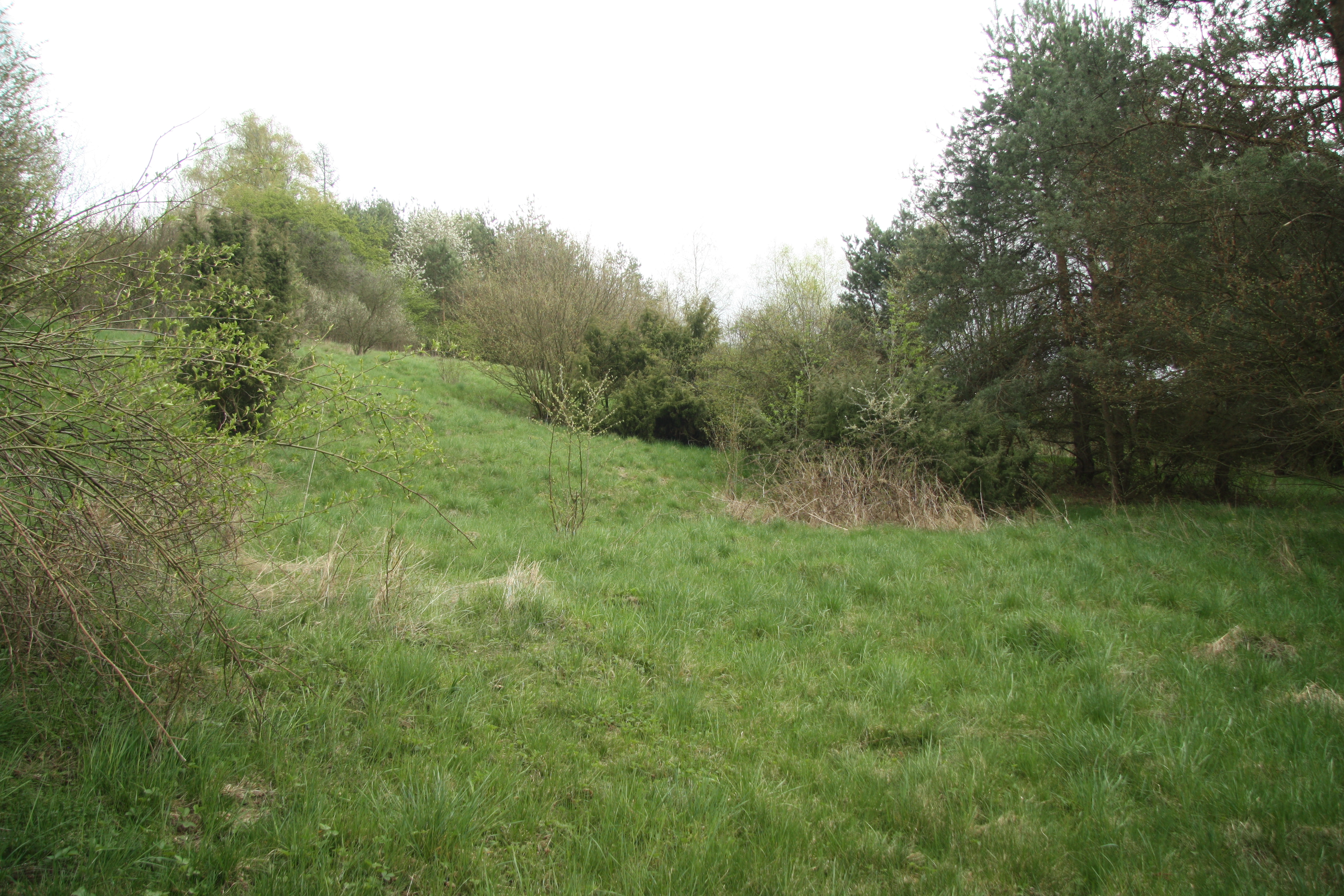 Top part of natural monument Prosenka, Vržanov, Kamenice, Jihlava District.